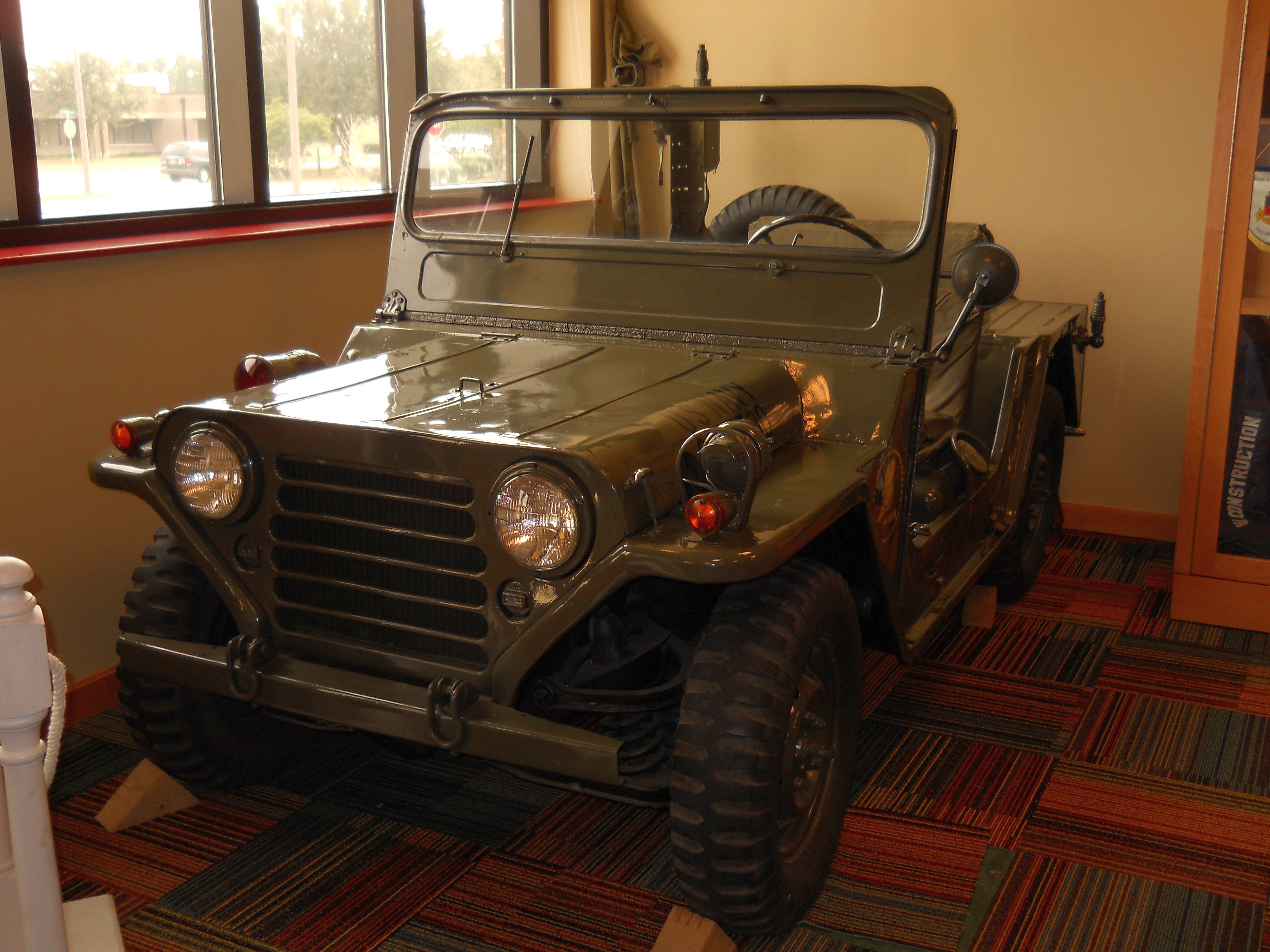 Ford M151 MUTT (Military Utility Tactical Truck), with distinctive horizontal grille, on display at the Seabee Museum, Naval Construction Battalion Center in Gulfport, Mississippi, USA.